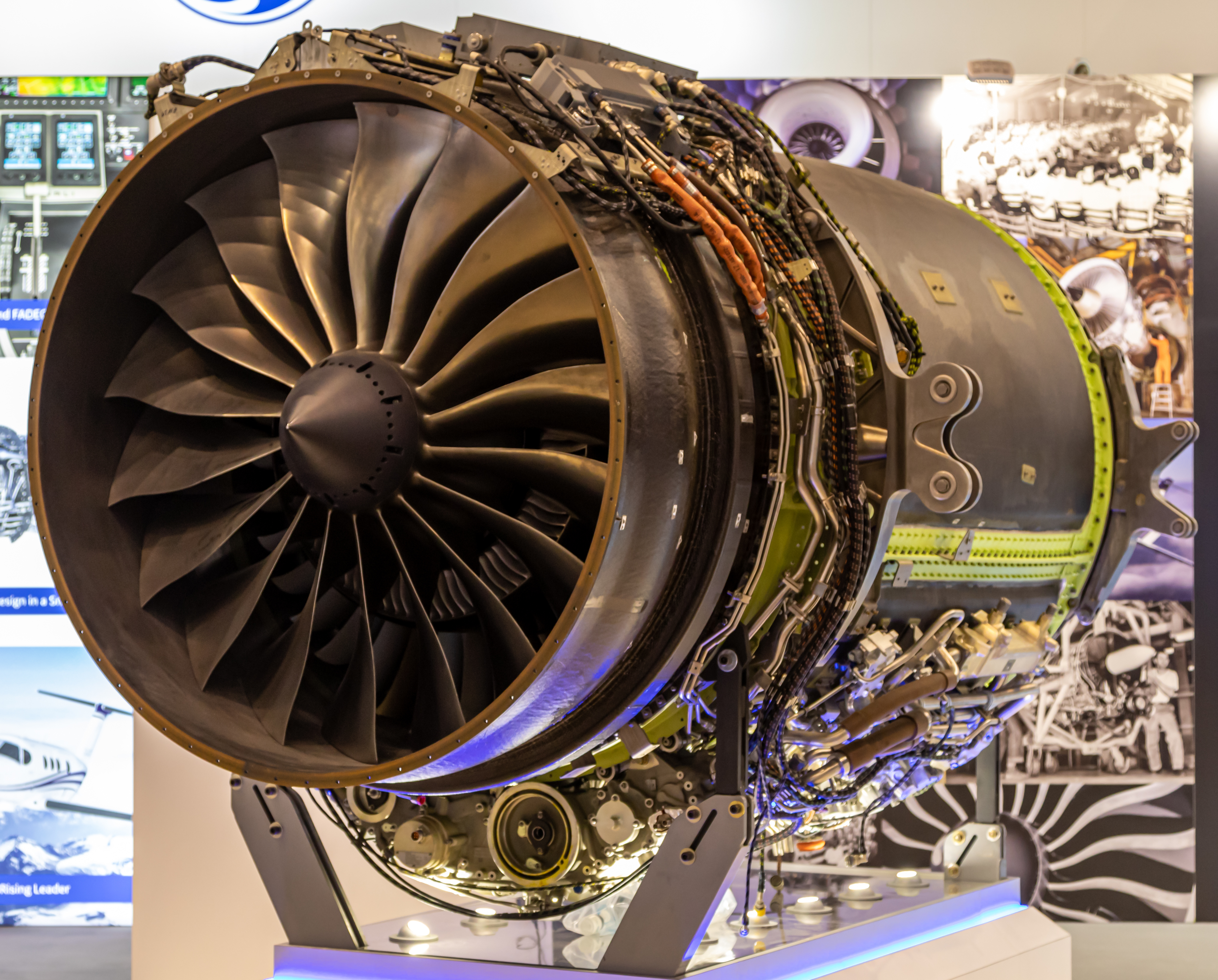 EBACE 2019, Palexpo, Switzerland